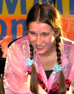 Andrea Echeverri firmando autografos (croped version and adjusted balance)